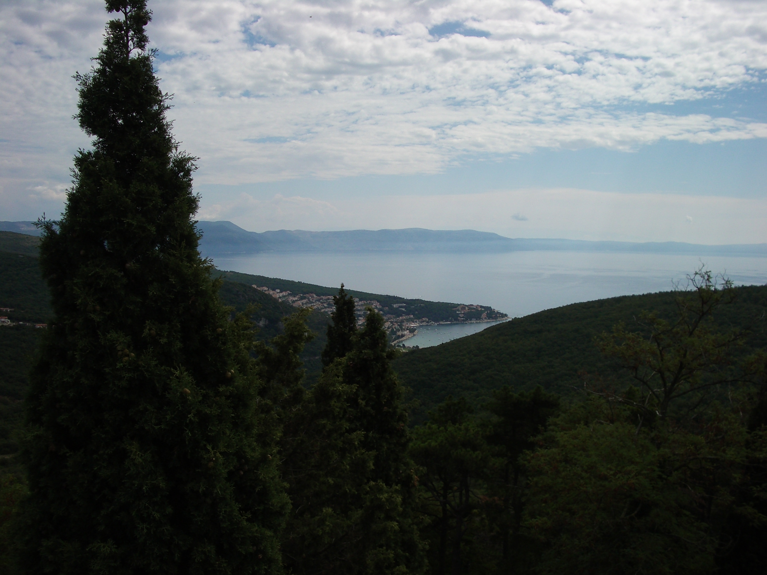 View of Rabac from Labin, city of Istria, region in Croatia.